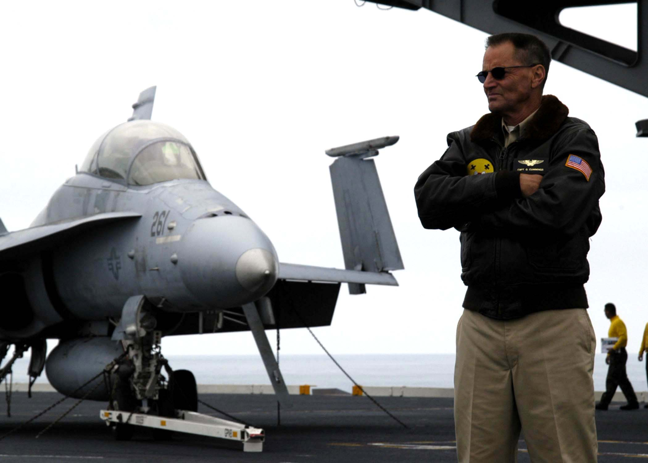 Actor Sam Shepard mulls over a scene in the upcoming motion picture "Stealth," while filming aboard the Nimitz-class aircraft carrier USS Abraham Lincoln (CVN 72). After ten months of dry docked Planned Incremental Availability (PIA) maintenance, Lincoln is conducting local operations in the Pacific Ocean in preparation for an upcoming deployment.